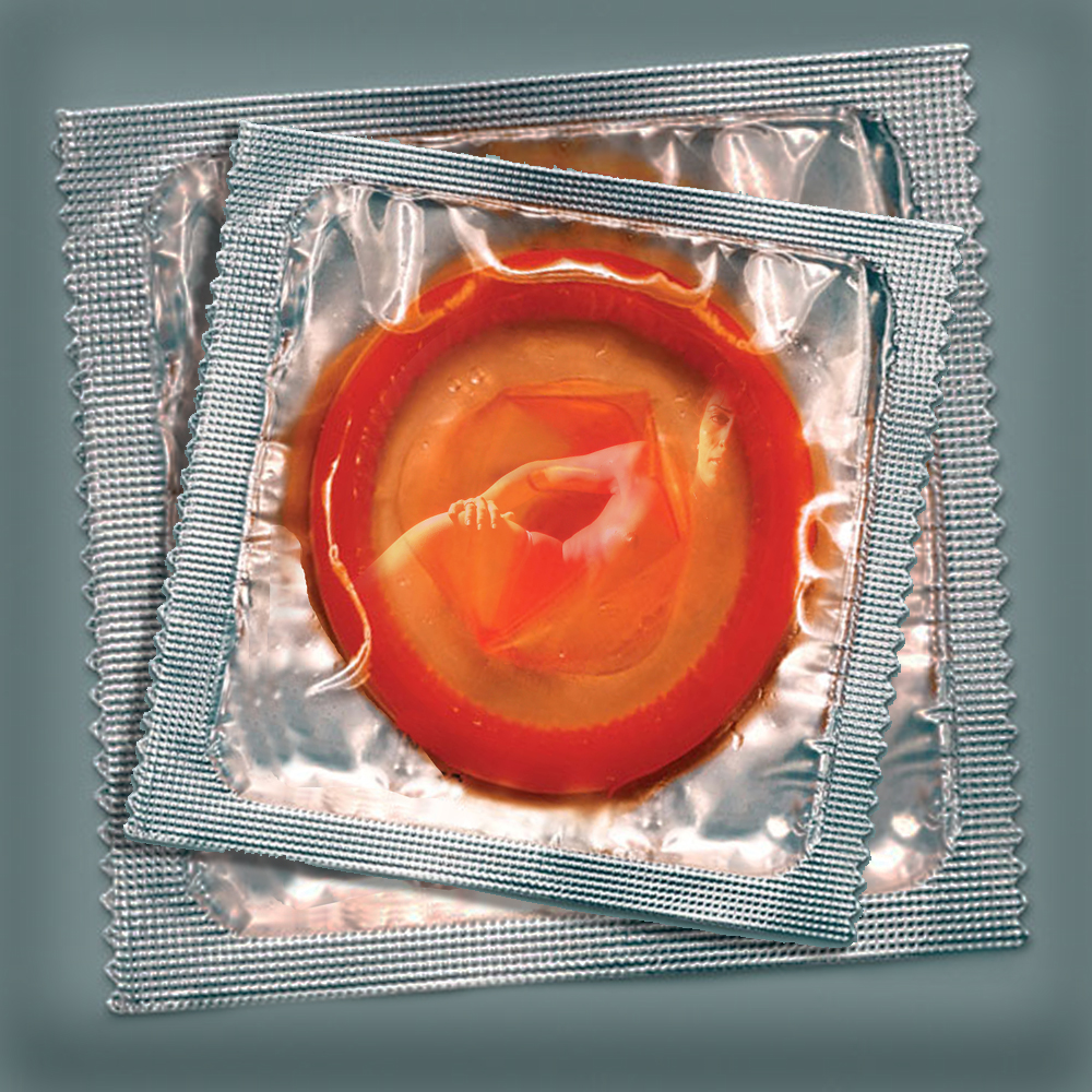 A red condom in its plastic package